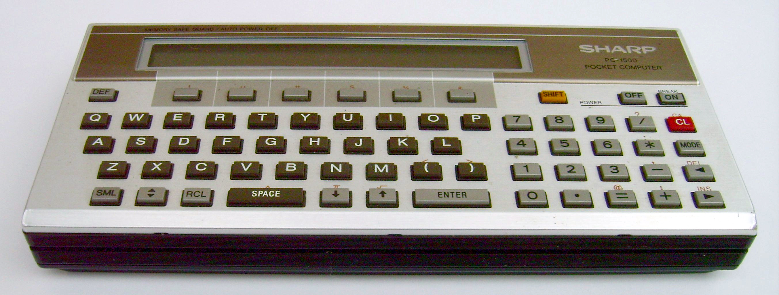 The Sharp PC-1500 Pocket Computer